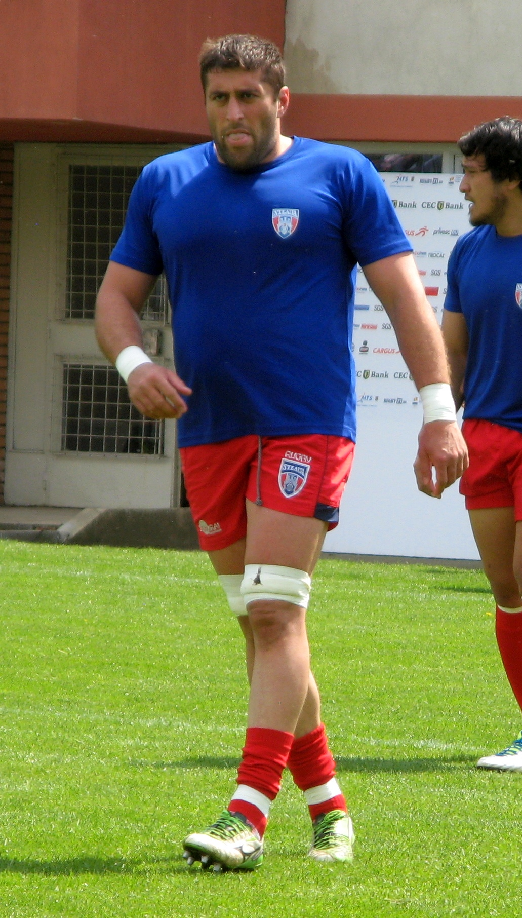 Georgian rugby union football player, Mikheil Archuashvili, from CSA Steaua București rugby club seen training before a match against Timișoara Saracens in Romanian Rugby SuperLiga in April 2017